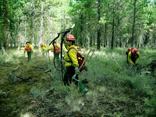 Forest Service crew doing hand rehabilitation on a fire line built to control the B&B Complex Fires in 2003, Cascade Mountains, Oregon